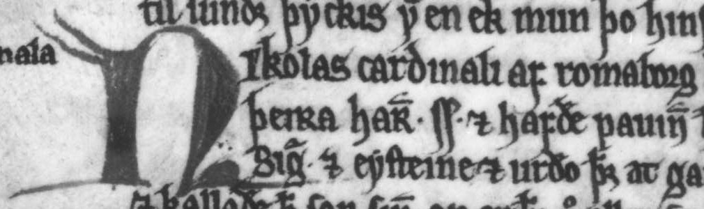 The name and title of Nicholas Breakspeare, Cardinal-Bishop of Albano (died 1159) as they appear on folio 57v of AM 47 fol (Eirspennill): "Nikolas cardinali af Romaborg". Jónsson, F , ed. (1916) Eirspennill: Am 47 Fol, Julius Thømtes Boktrykkeri. The text appears on page 201 chapter 16.